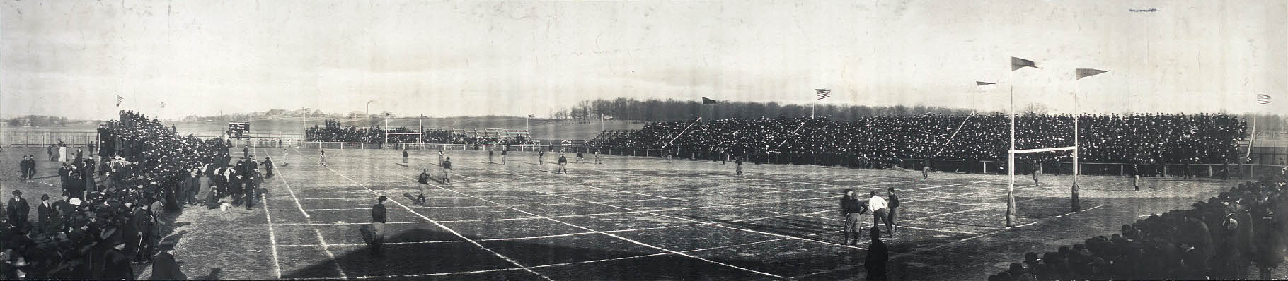 Canton Bulldogs-Massillon Tigers Betting Scandal was the first major scandal in professional football. It refers to an allegation made by Massillon newspaper charging the Canton Bulldogs coach, Blondy Wallace, with throwing the 1906 Ohio League championship game against their rivial the Massillon Tigers. This is a photograph from that game.